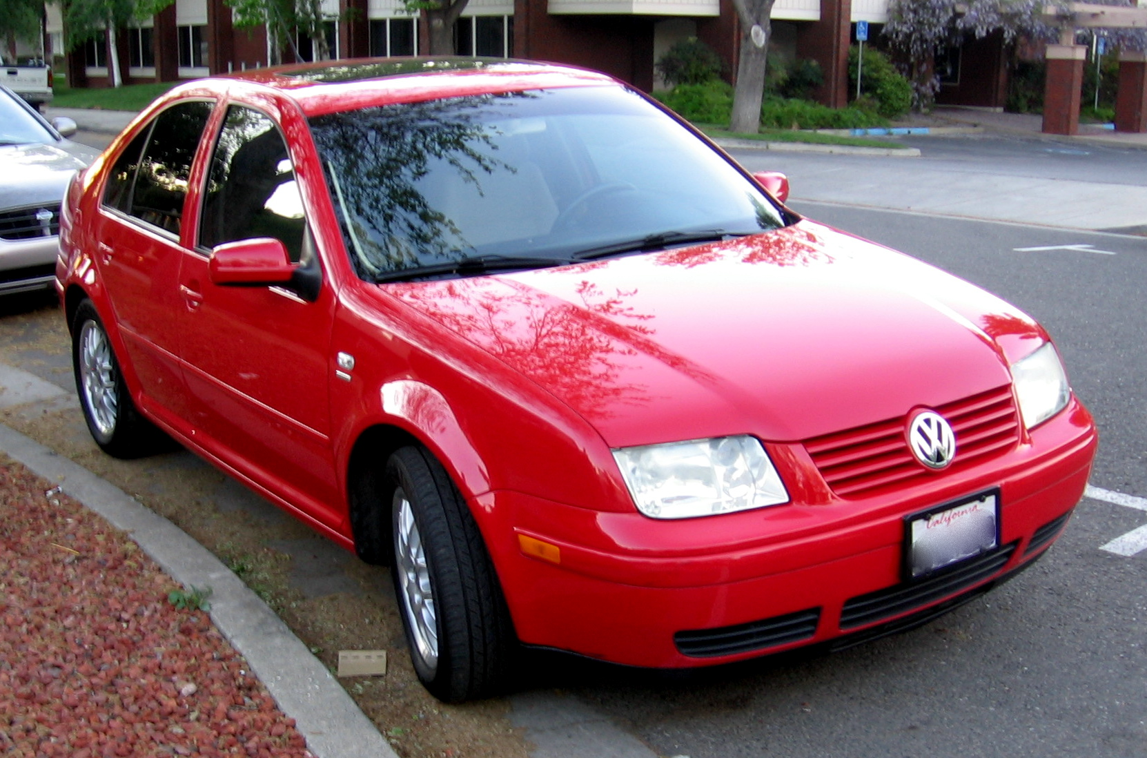 2001 model VW Jetta 1.8 Turbo Wolfsburg Edition. Front view.